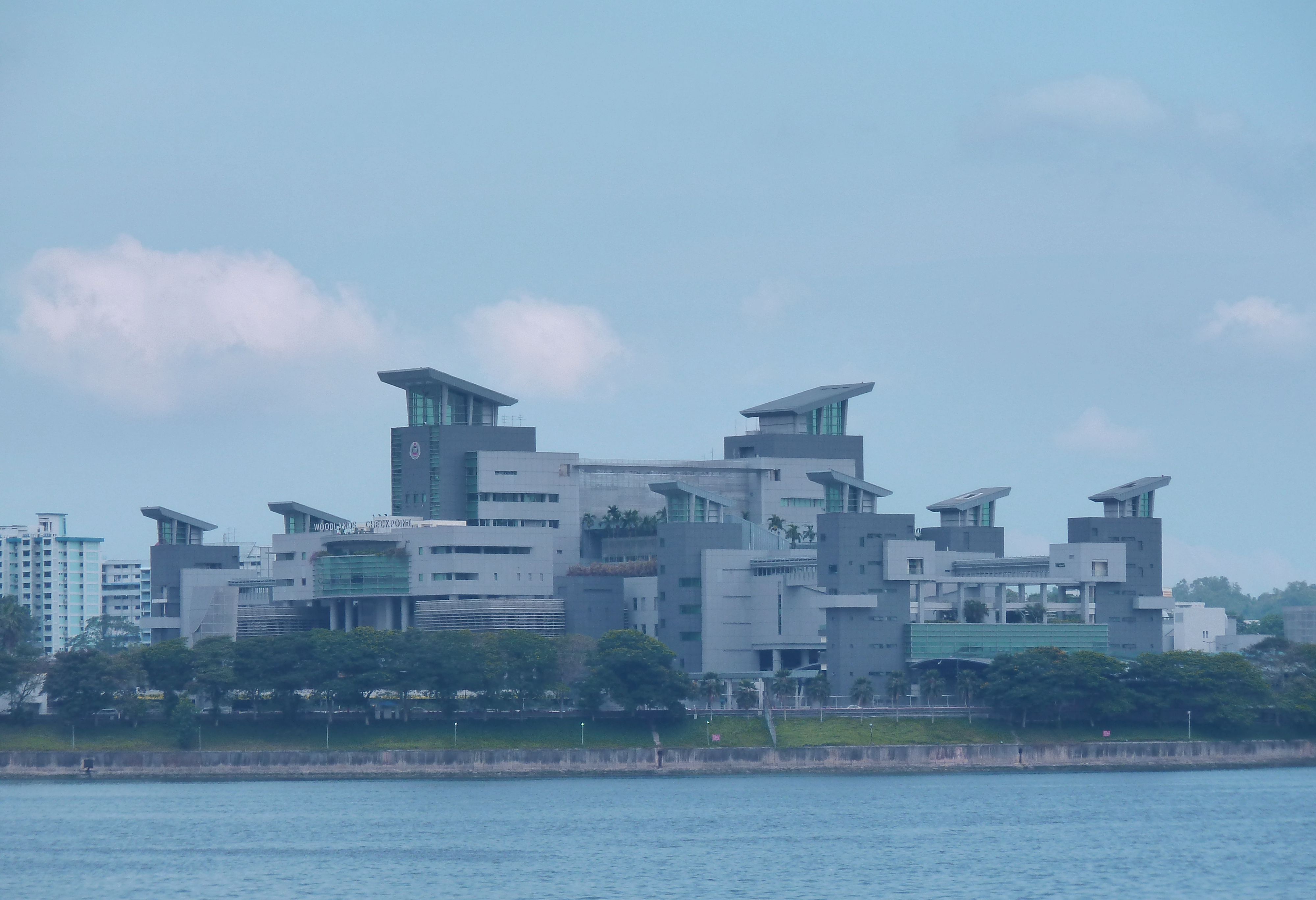 The Woodlands Checkpoint in Woodlands, Singapore, at the Singapore end of the Johor–Singapore Causeway.